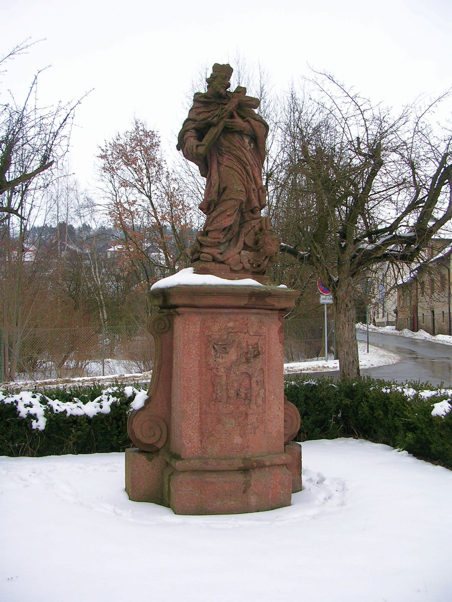 Mnichovice, the Czech Republic.